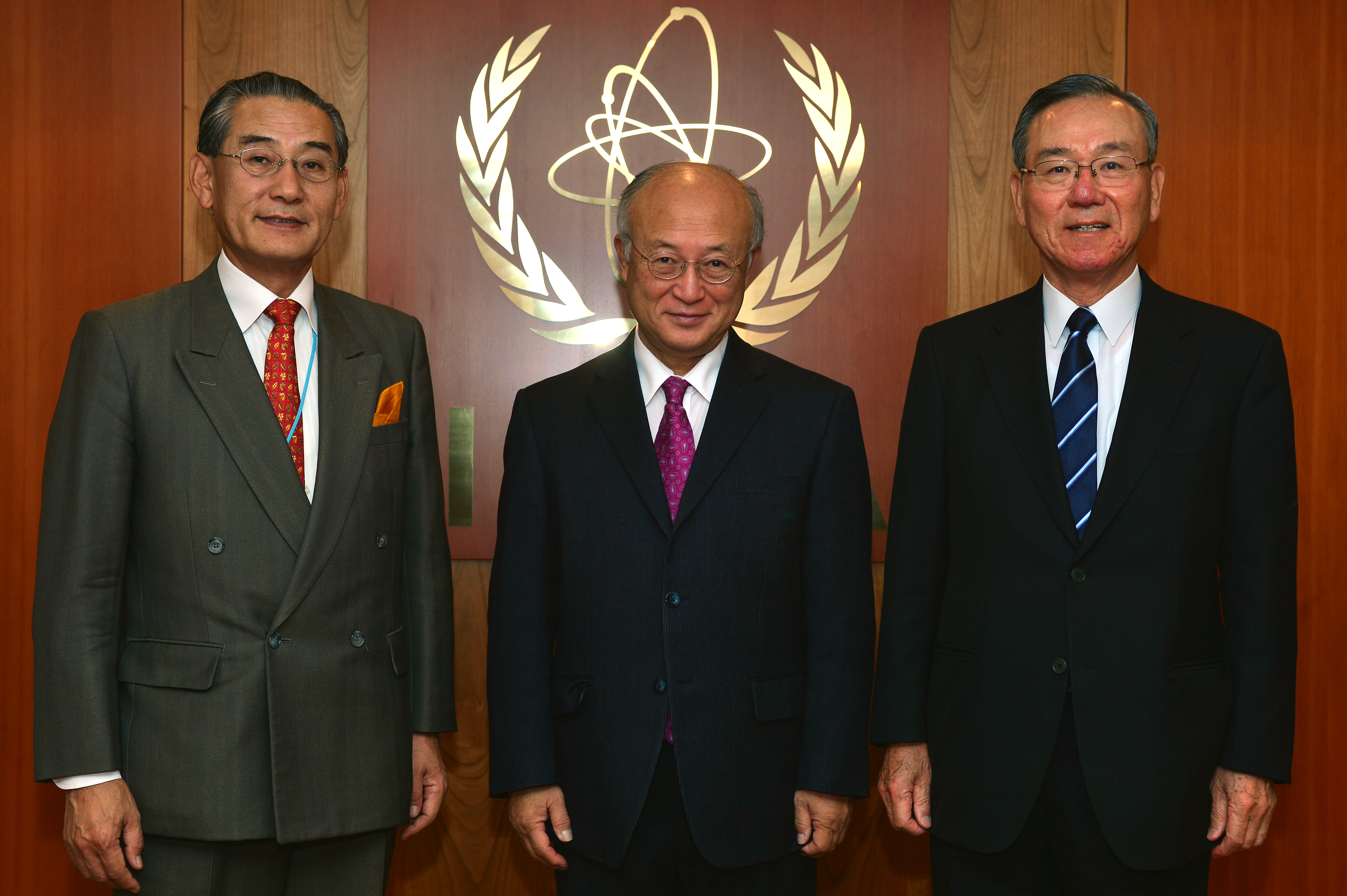 Kenzō Ōshima, Commissioner of the Nuclear Regulation Authority, and Toshirō Ozawa, Ambassador to the International Organizations in Vienna, met Yukiya Amano, Director General of the International Atomic Energy Agency, at the International Atomic Energy Agency Headquarters in Vienna City, Vienna State on October 24, 2012.